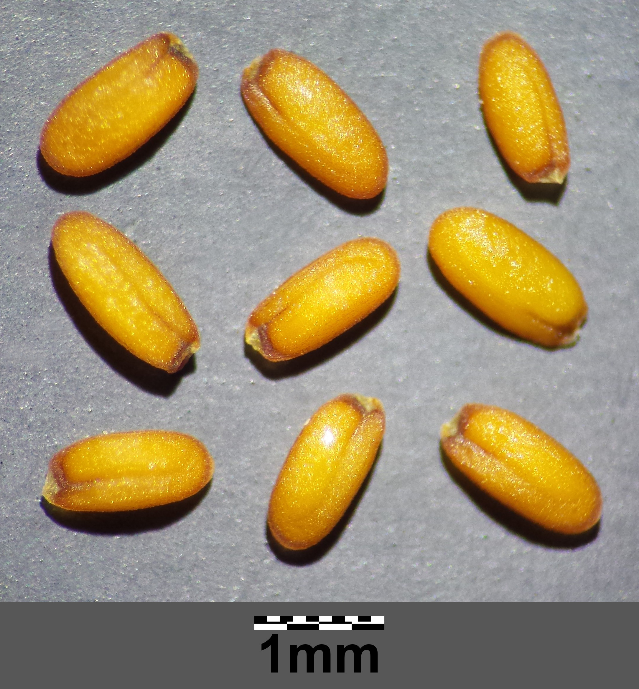 Seeds Taxonym: Erysimum repandum ss Fischer et al. EfÖLS 2008 ISBN 978-3-85474-187-9 Location: Leiser Berge, district Korneuburg, Lower Austria - ca. 400 m a.s.l. Habitat: field